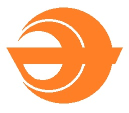 Minamimaki Nagano chapter